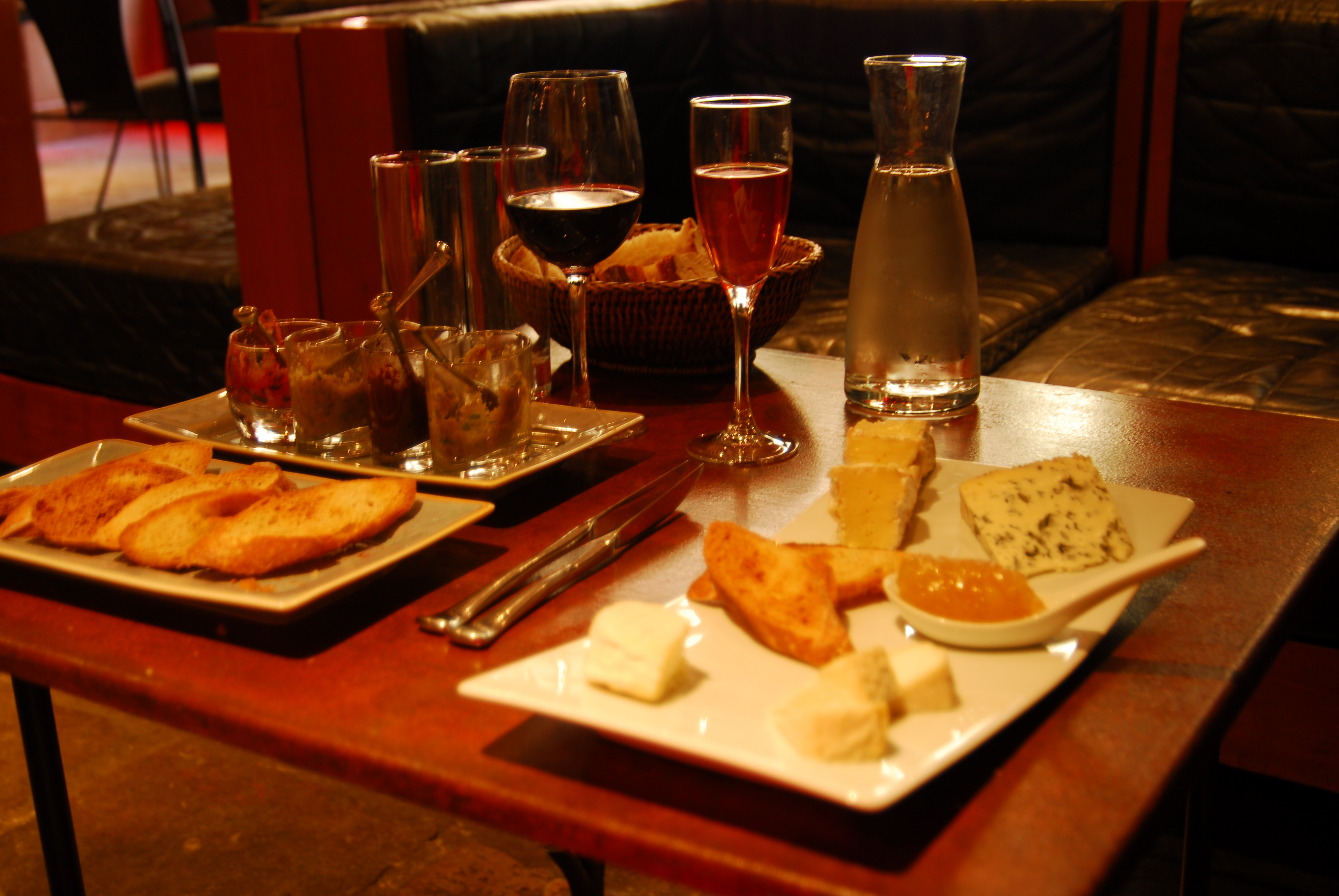 Plates and glasses of pure yumminess at La Tour Rose bar-café